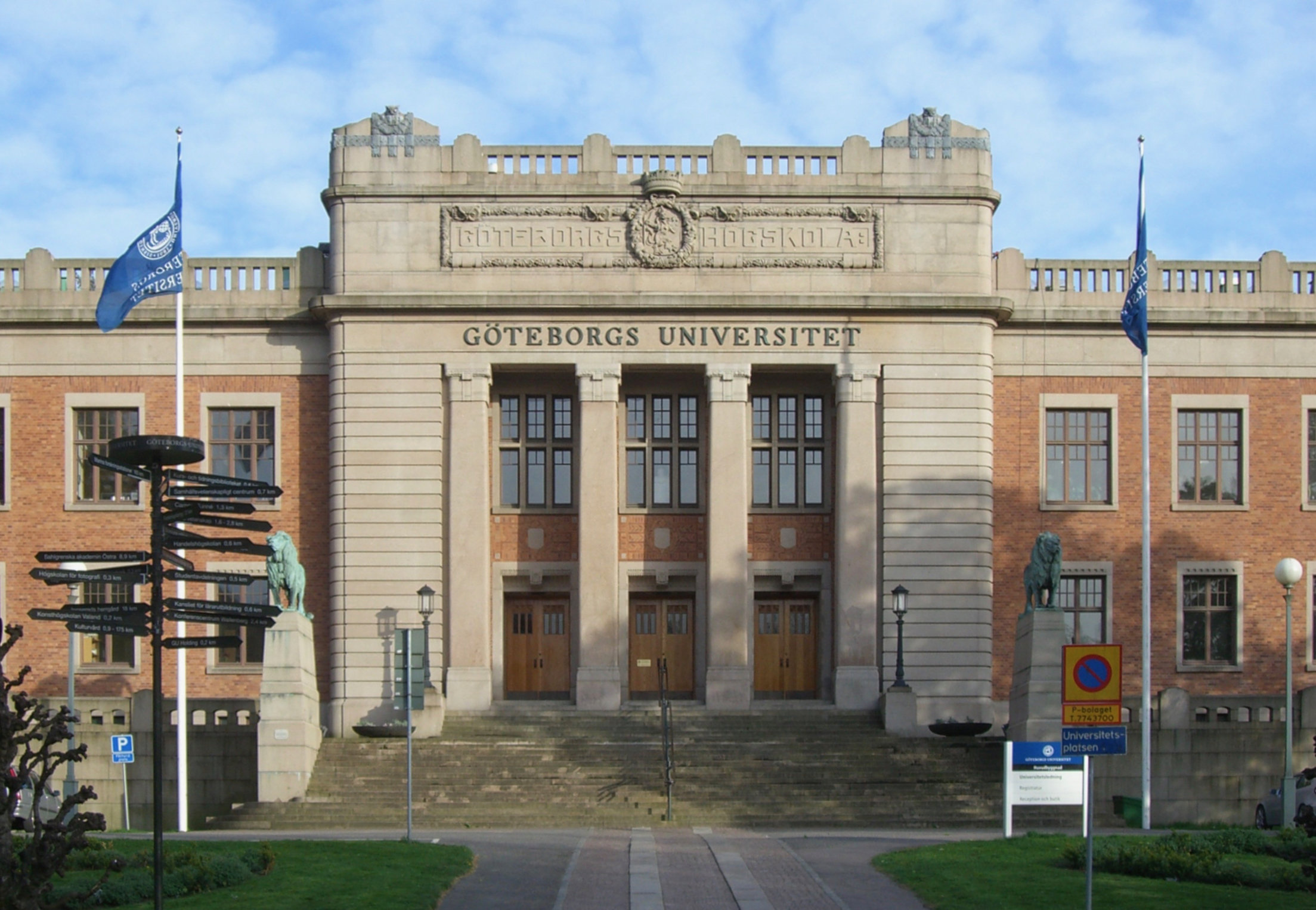 University of Gothenburg, Sweden, main building